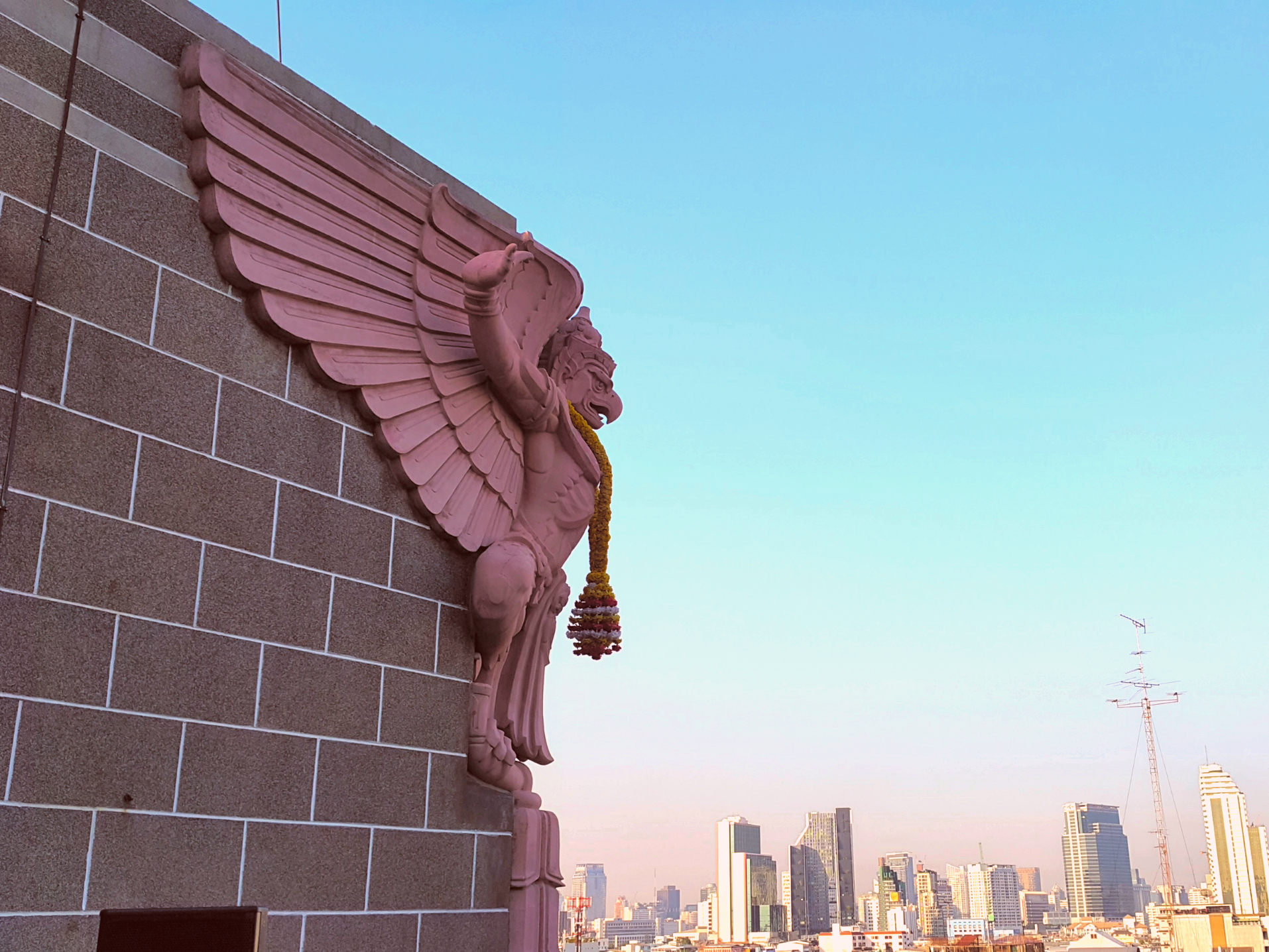 Garuda on the top of the Grand Postal Building Bangkok